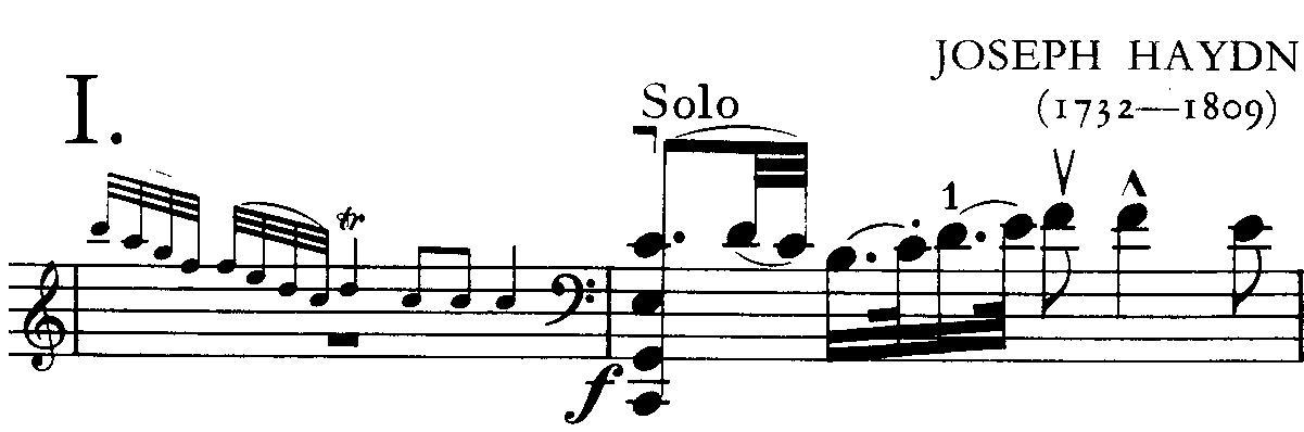 mov 1